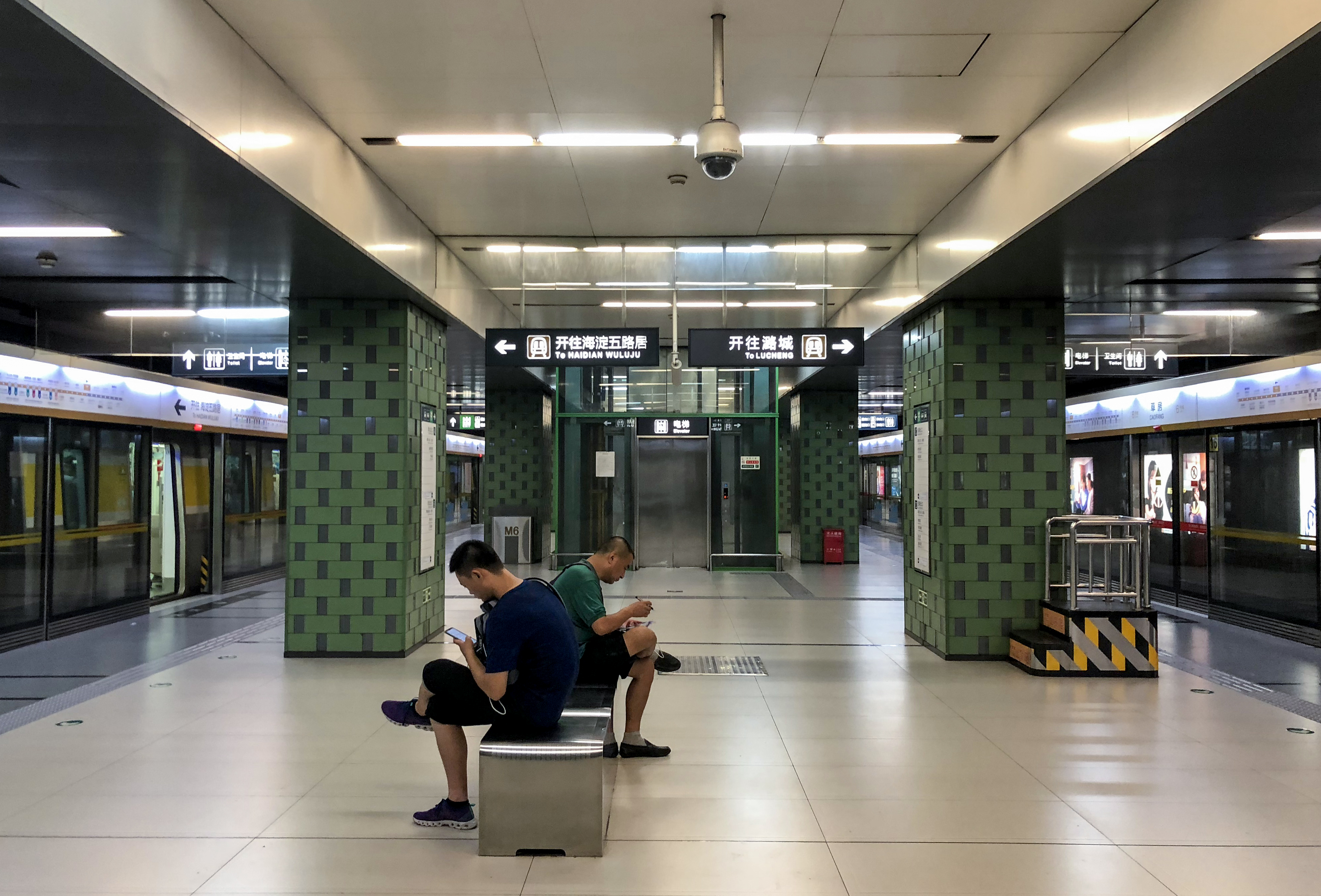 The initial start.